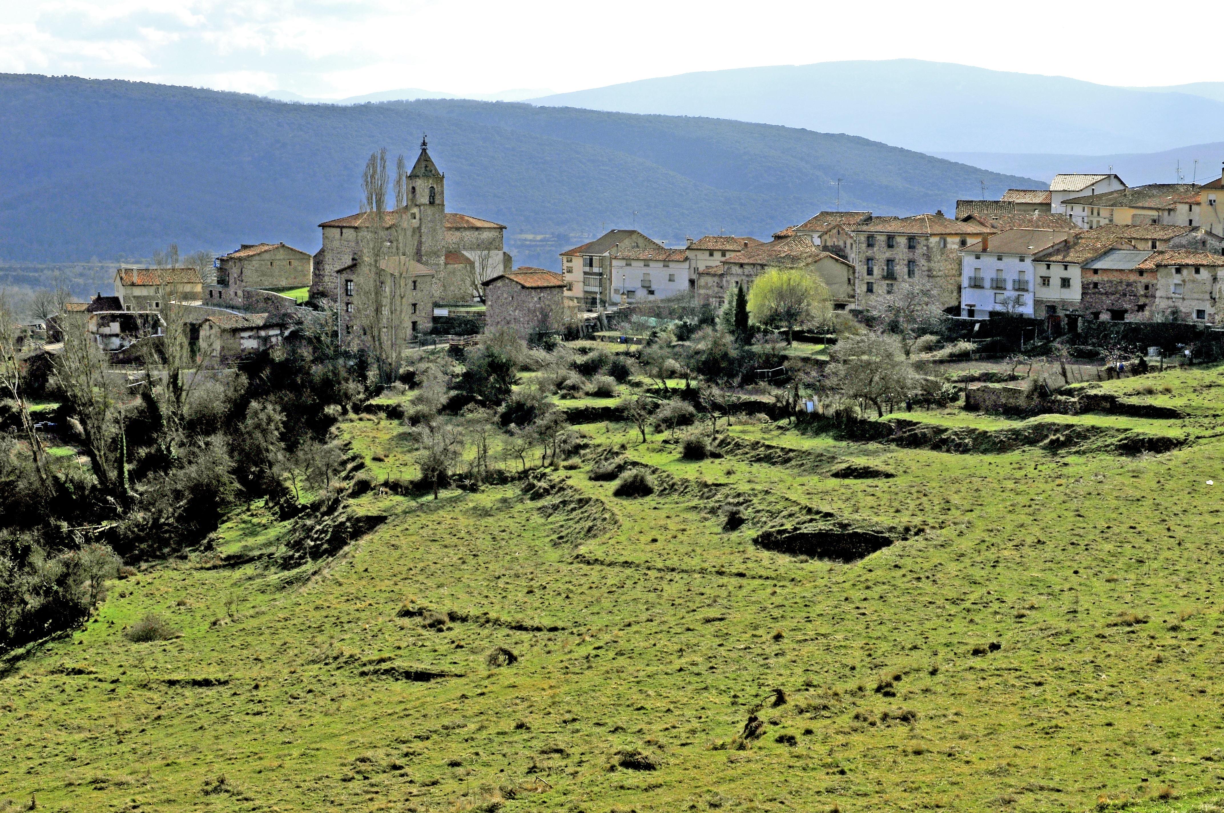 The village and its surroundings. Almarza de Cameros, La Rioja, Spain